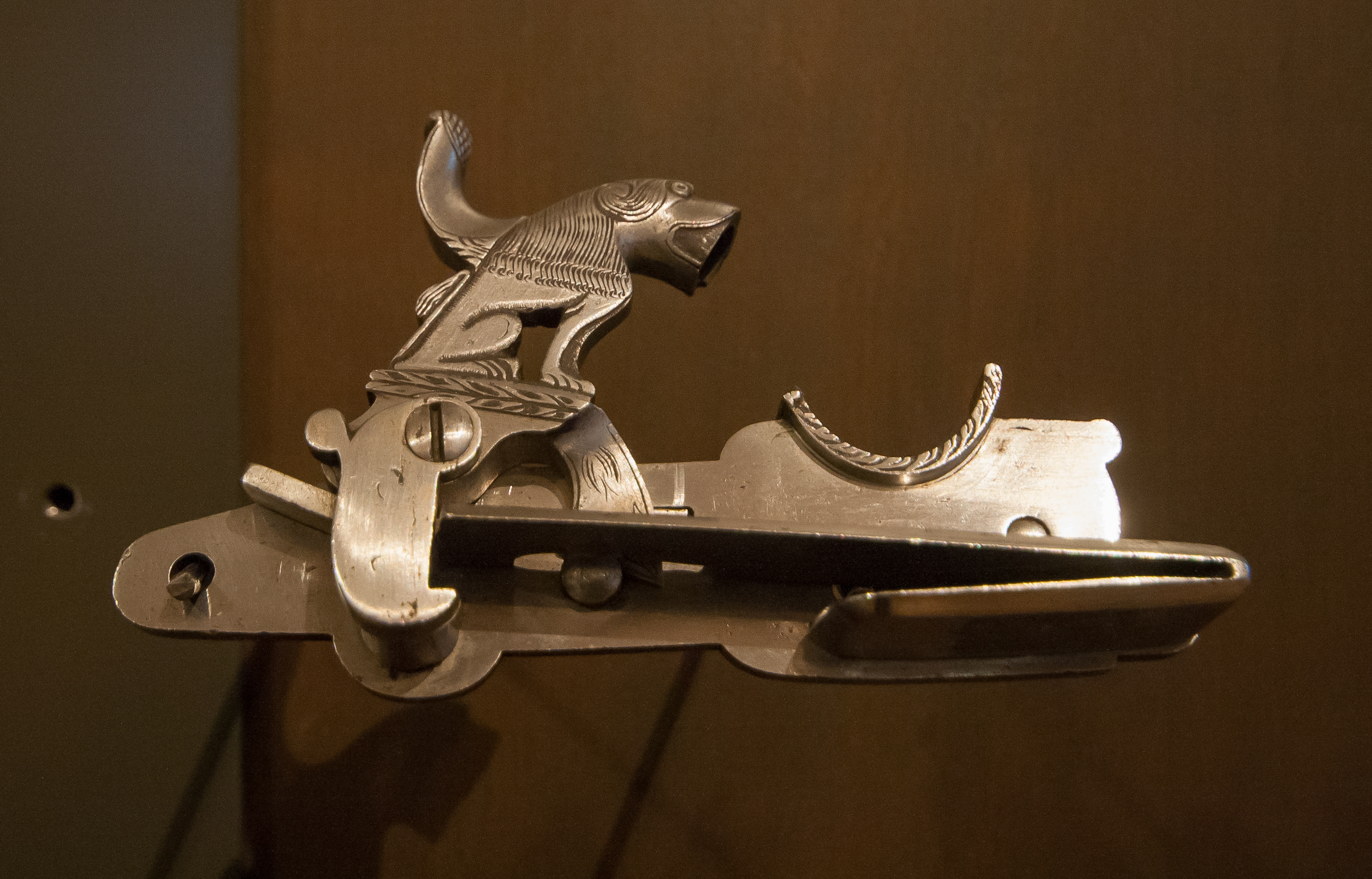 Carved plate ? Weapons Department, Museum of Art and Industry in Saint-Étienne, France.